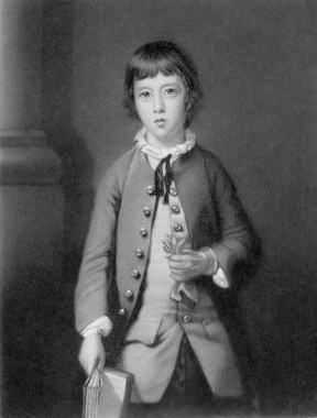 Portrait of George Greville, 2nd Earl of Warwick (1746-1816)